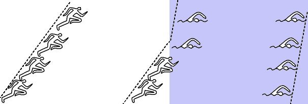 Metaphor of athletes. Athletes have to run on the beach then swim, always with a way perpendicular to the shore. They all run at the same speed, swim at the same speed, but they swim slowlier than they run. They start on a line, but this line is not perpendicular to the shore. We can see that the direction of the line formed by the athletes changes after the shore: while the first swimmers go slowly, the athletes on the beach keep on running fast. The light has the same behaviour when the medium changes. The boundary is similar to the strand, and the wave crest is similar to the line of athletes